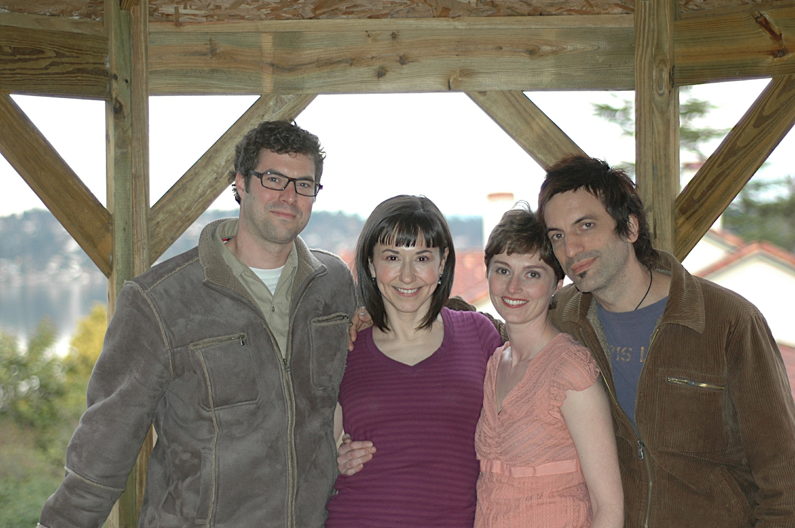 Terisa Greenan, second from left, and the cast of Family: the web series. Ernie Joseph, left, Amber Rack, second from right, Eric Smiley, right.